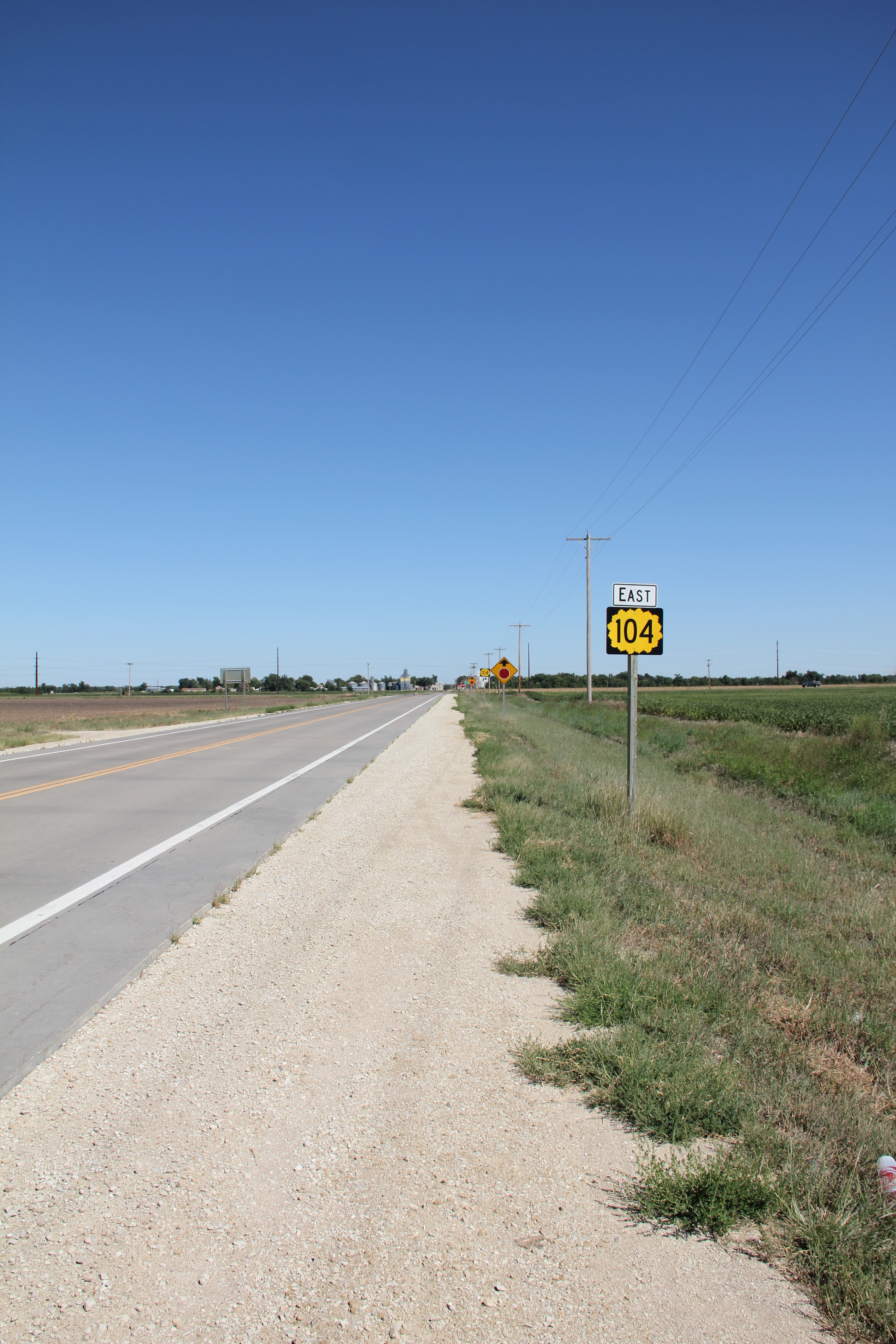 The east-west section of K-104 highway from just east of Interstate 135 looking east towards the town of Mentor, Kansas.